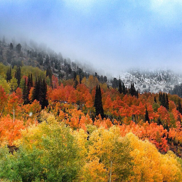 Fall colors Utah